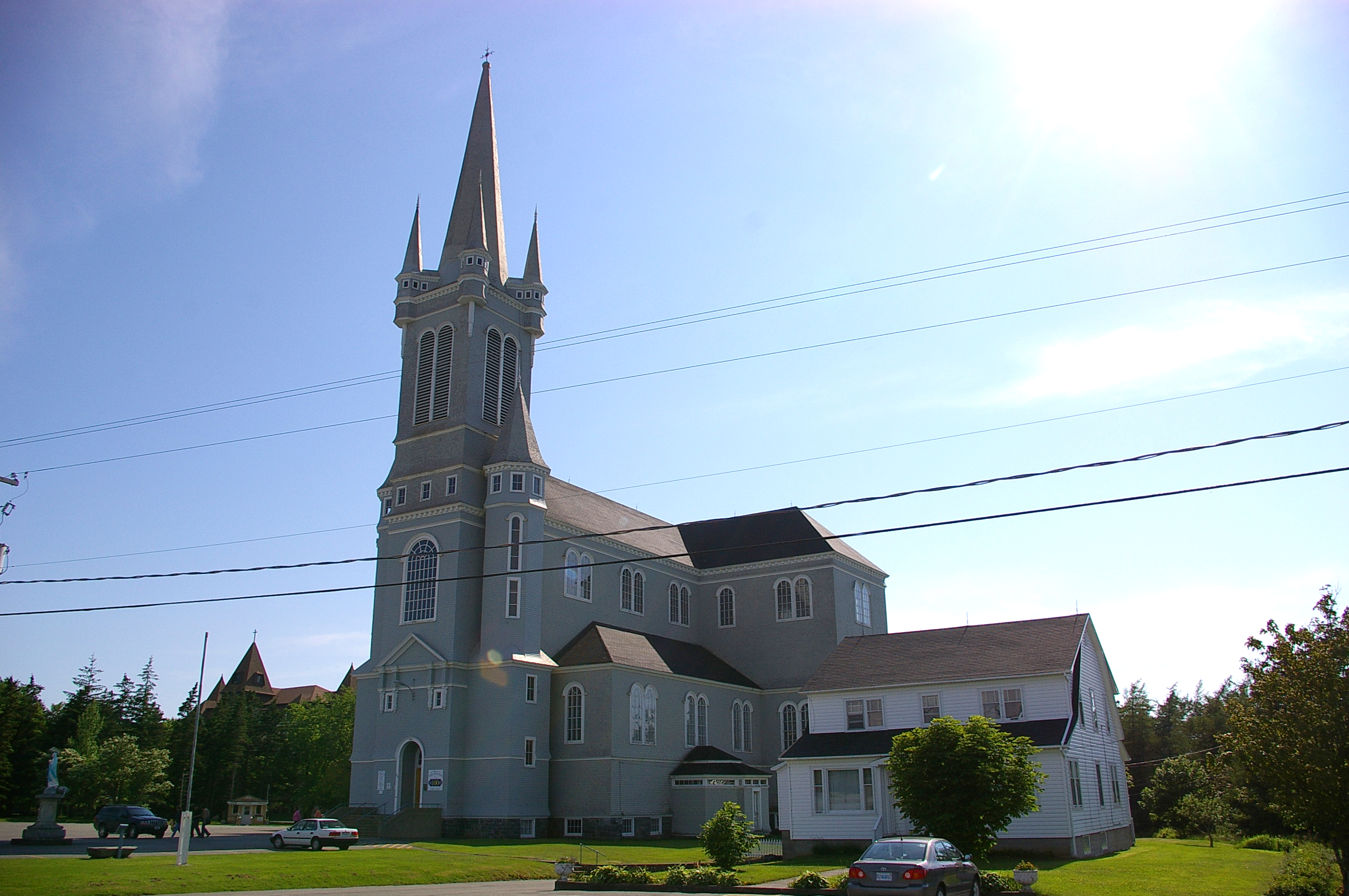 Exterior picture of St Mary's Church